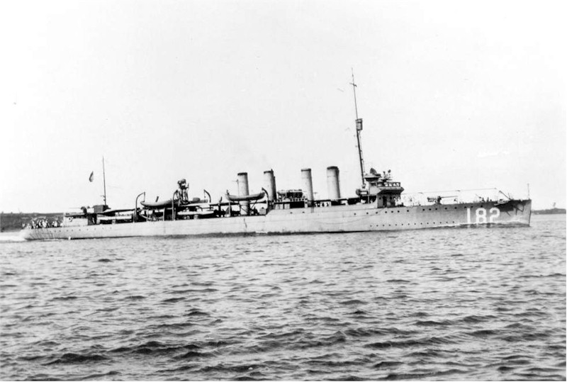 American Wickes class destroyer USS Thomas (DD-182). She was transferred in 1940 to the Royal Navy as HMS St Albans (I15), as a Town class destroyer, but spent most of the war in the exiled Norwegian navy as HNoMS St Albans, before transfer to the Soviet Navy as Dostoyny.